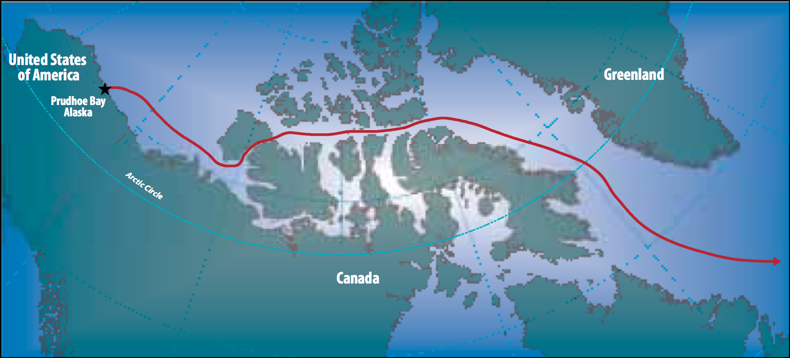 Map of the route followed by by the SS Manhattan to traverse the Northwest Passage in 1969. It was the first commercial voyage through the Northwest Passage|Northwest Passage. In 1969, four shipyards, an international team of maritime experts and three major oil companies pitted their considerable technical, creative and financial resources together to attain the goal of taking a tanker through the infamous NWP. For this voyage the Manhattan had to undergo extensive refit to convert this merchant vessel into an icebreaking tanker. The conversion, lasting eight months (from December 1968 to August 1969) with work being split among four shipyards, cost $US28 million (the entire experiment, with two test voyages originally estimated at $US10-15 million, eventually ended up, 21 months later, costing $US58 million). The Manhattan set sail in August of 1969 with 126 on board (45 crew members, journalists, U.S. politicians, Canadian parliamen- tarians, scientists, naval architects, marine engineers, etc.) for the 4,400-mile journey. Of key importance and significance were the escorting icebreakers accompanying the Manhattan, especially the Canadian icebreakers John A. MacDonald and later the Louis S. St. Laurent. In this voyage the Manhattan was successful as a large model test ship, as the vessel broke thicker ice than any ship in history.